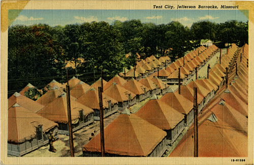 Jefferson Barracks Basic Training Camp in WWII. "Jefferson Barracks, established in 1826, is located just outside St. Louis, Mo. The post has a long history in military annals. At one time during the Civil War, General U. S. Grant headquartered here. It was only recently that the post became exclusively an Air Corps Replacement Training Center."